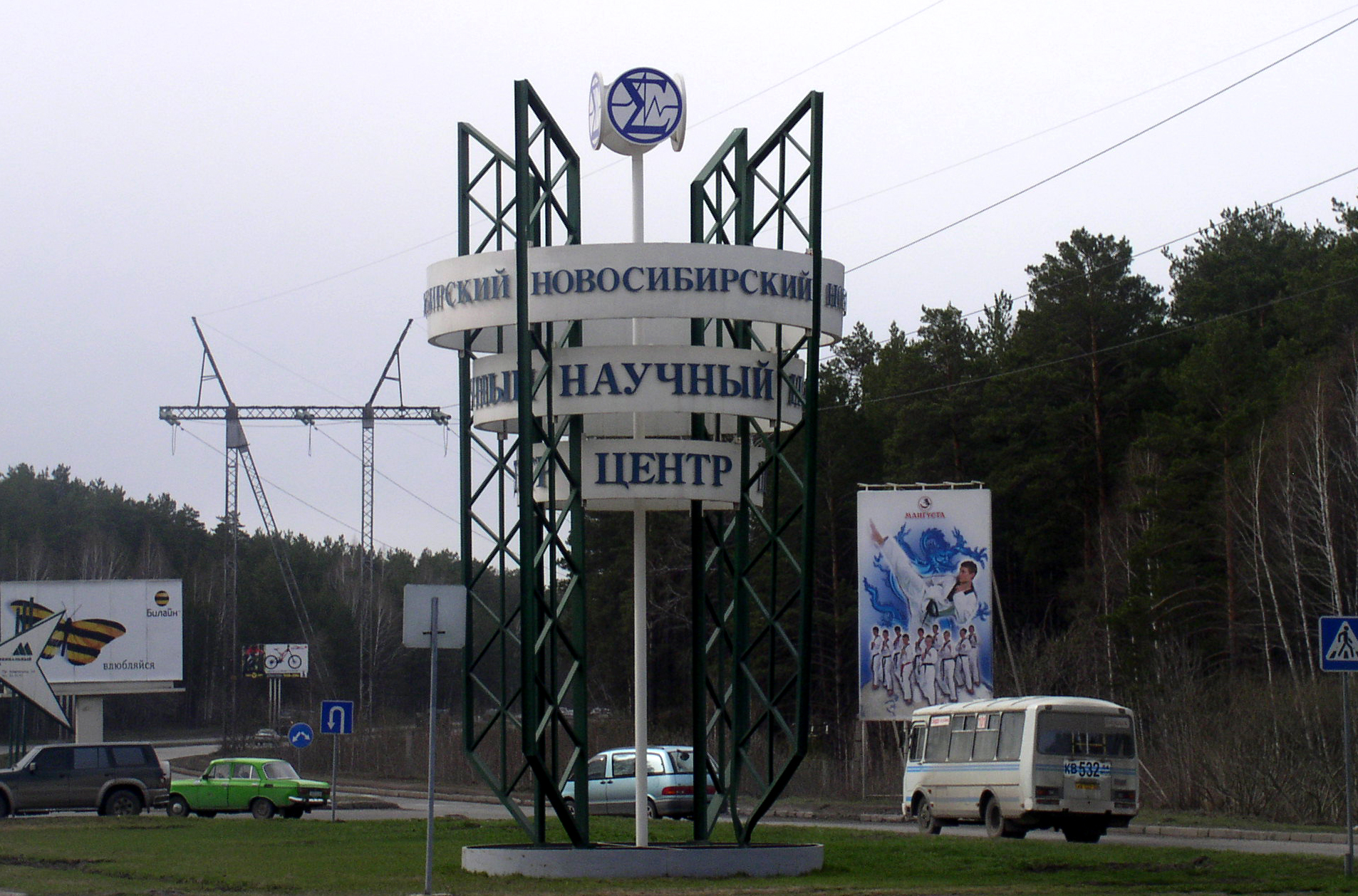 Entrance of Akademgorodok in Siberia